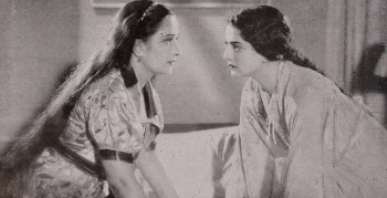 Screen still from the film Ladies Only from Filmindia December 1938 issue.